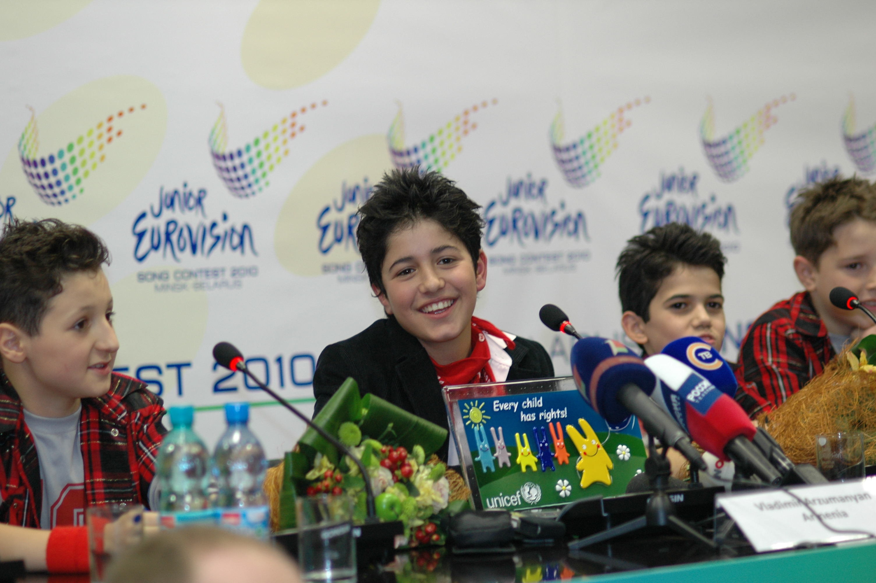 Vladimir Arzumanyan, Interview at JESC 2010